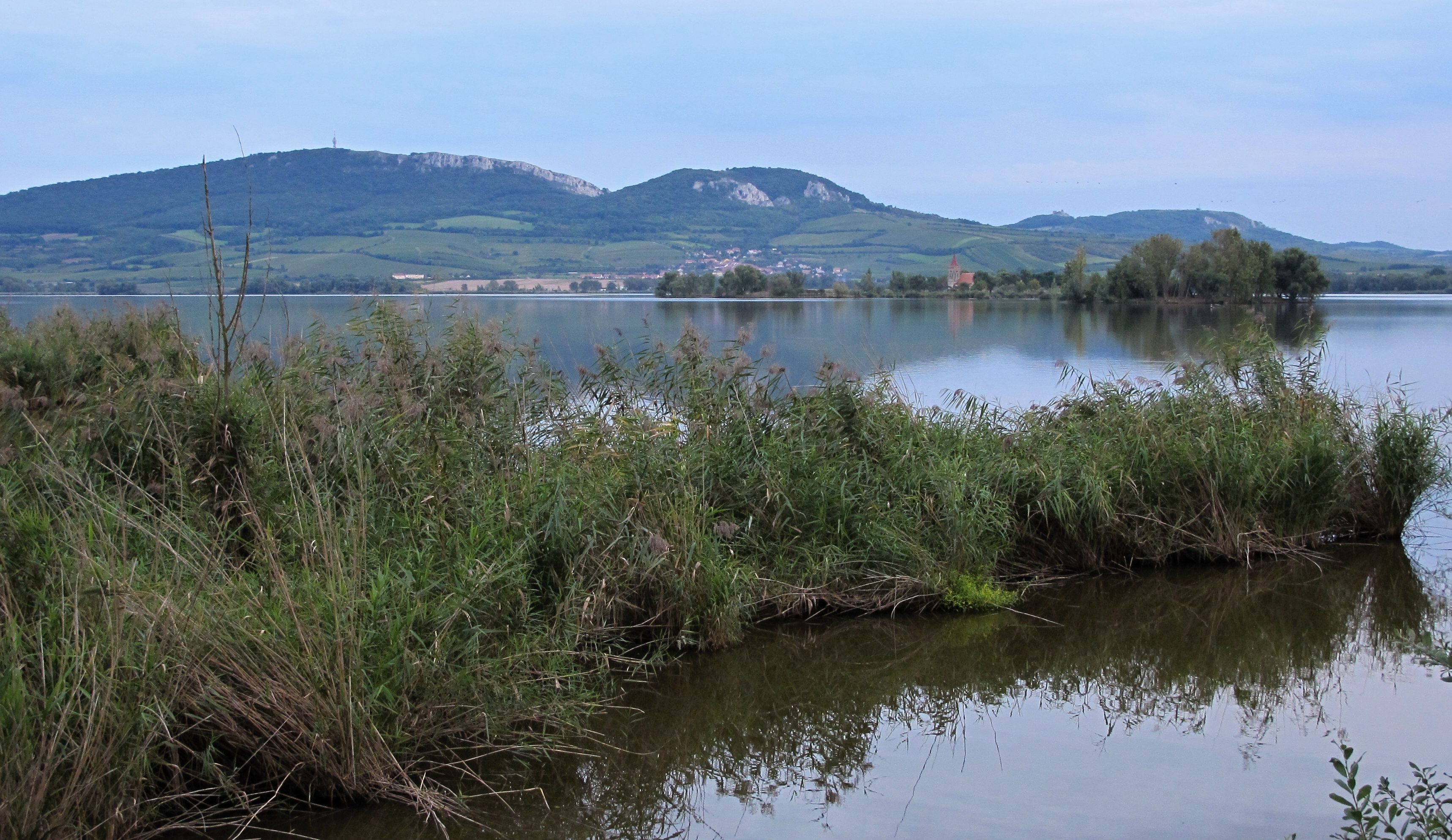 Nature reserve Věstonická nádrž - one part of the Nové mlýny Reservoire, Břeclav District